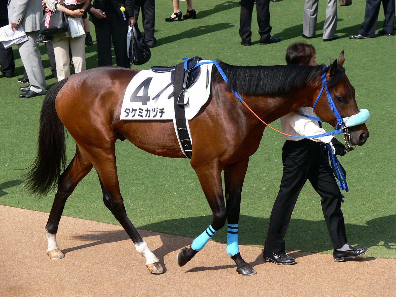 Japanese race horse "Take-Mikazuchi" in Tokyo racecourse.